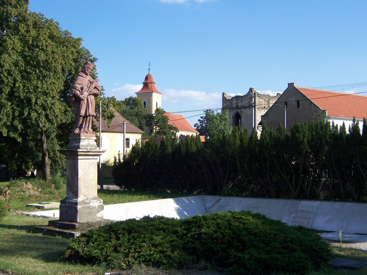 Vyšehořovice